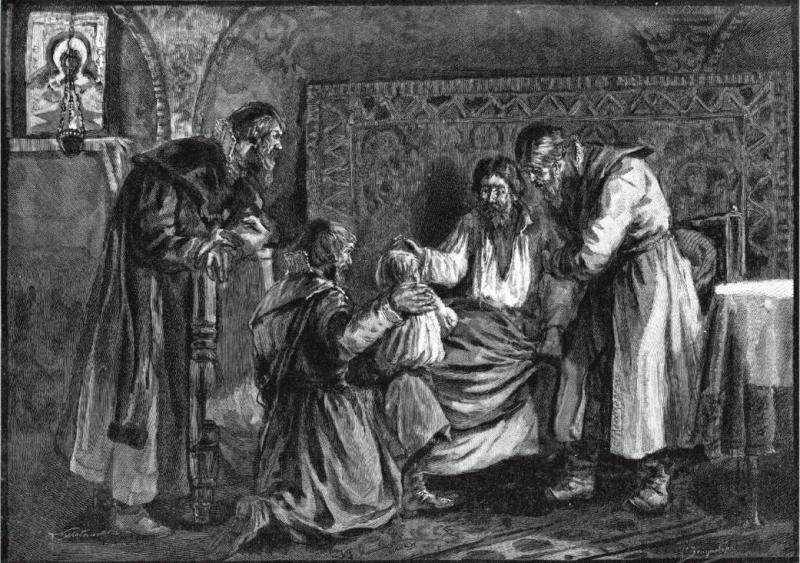 Grand Prince of Moscow Vasily III blesses his little son Ivan IV (the Terrible)